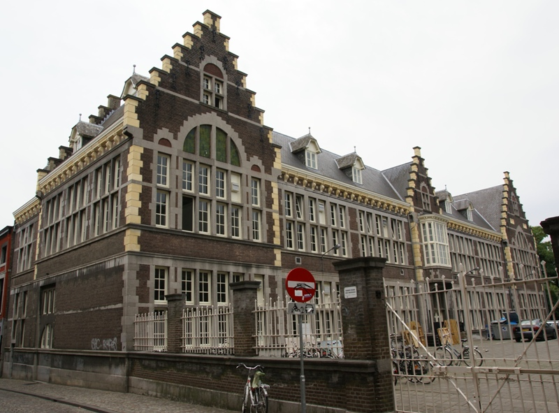 National monument no. 27283 - Lenculenstraat 33, Maastricht, The Netherlands